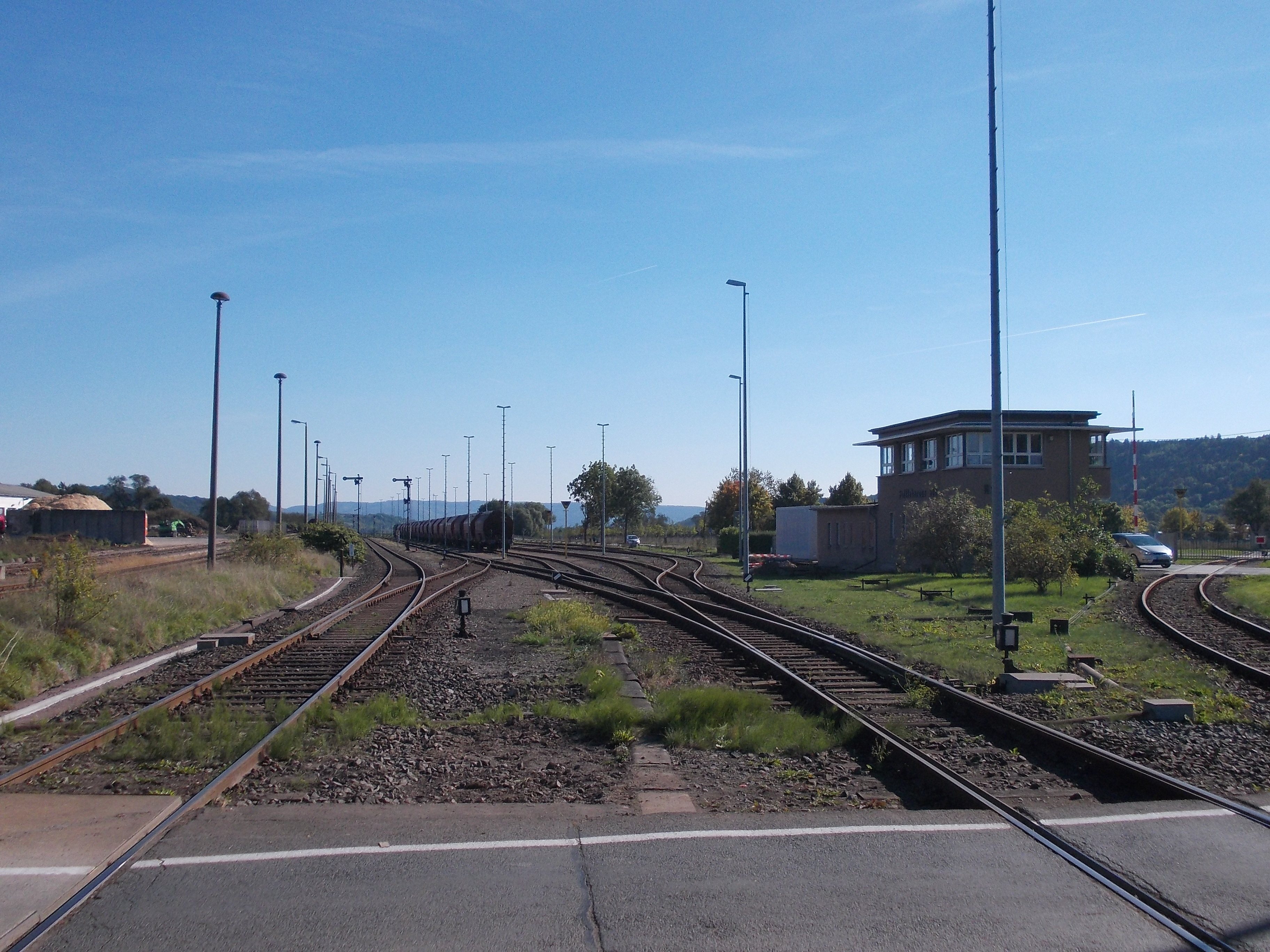 Rottleberode-Süd freight train station (Südharz, Mansfeld-Südharz district, Saxony-anhalt)